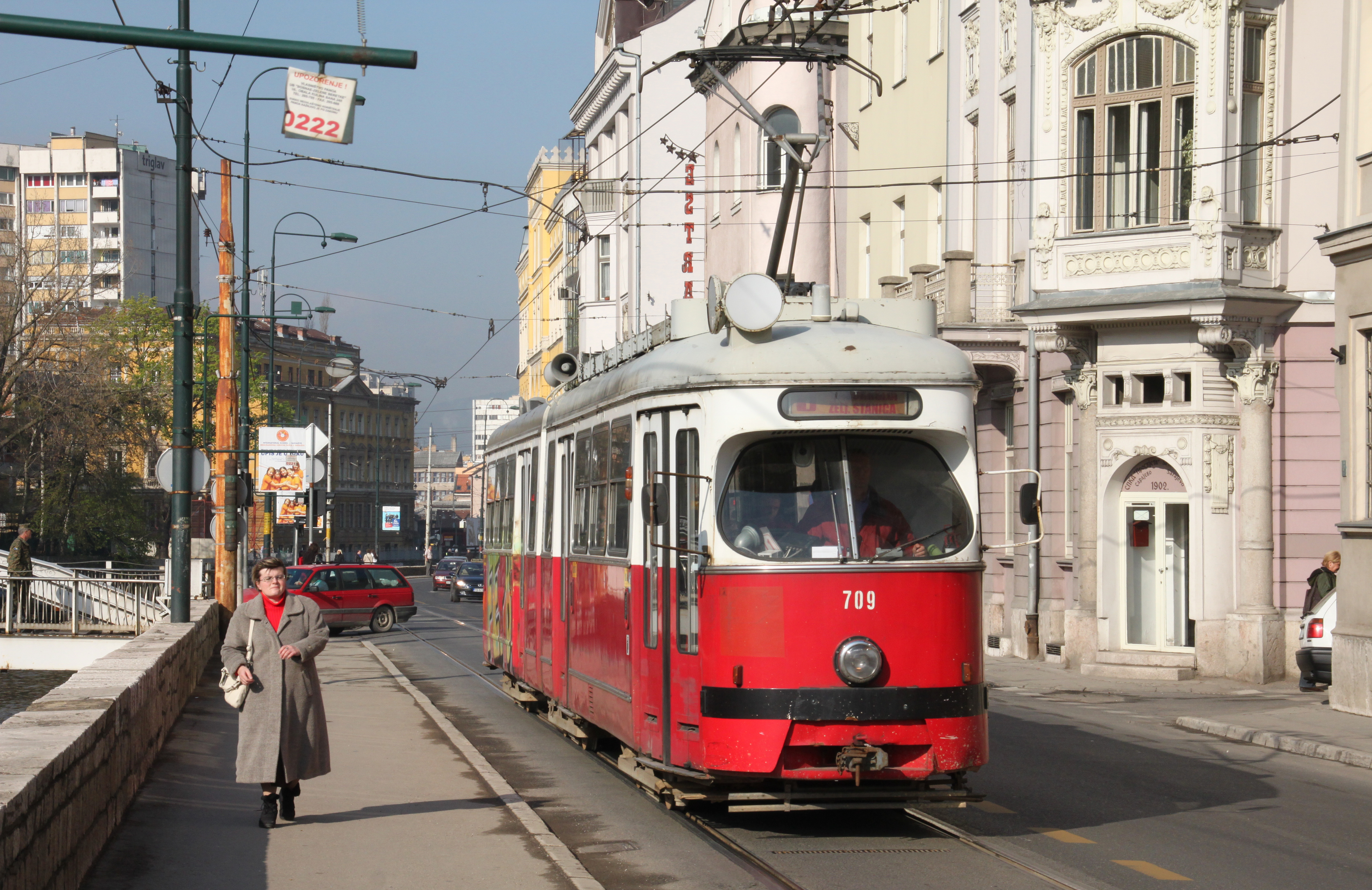 former Wiener Linien tram now in Sarajevo on the Obala Kulina bana